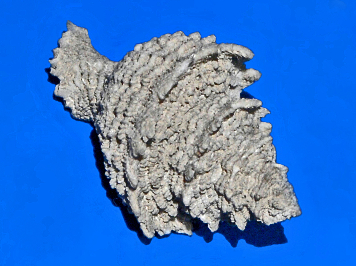 A shell of Babelomurex cariniferus from Sicily, on display at the Museo Civico di Storia Naturale di Milano